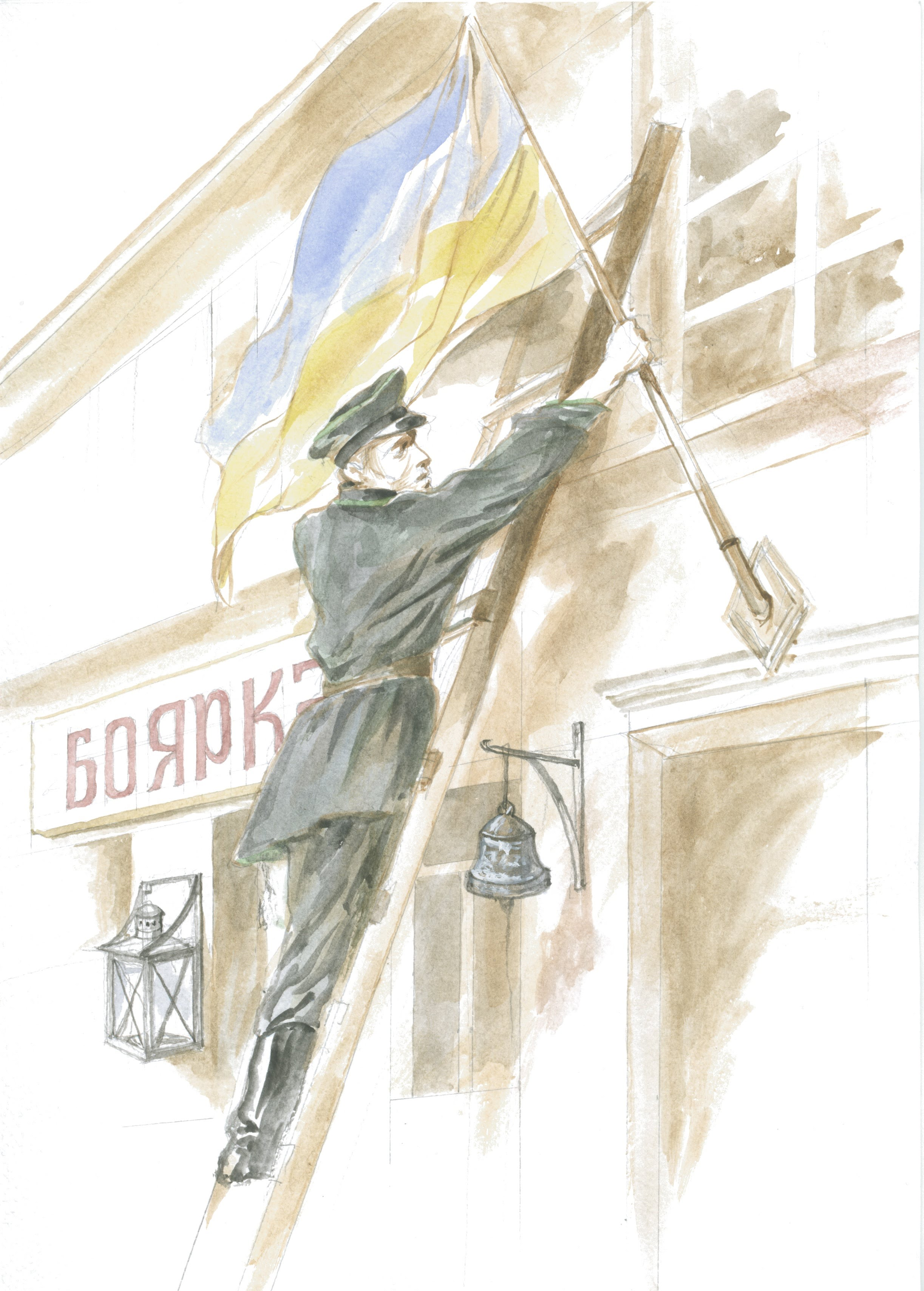 Петро Тимошенко піднімає український національний прапор на станції Боярка, 1 березня 1918 року. Малюнок Юрія Нікітіна.